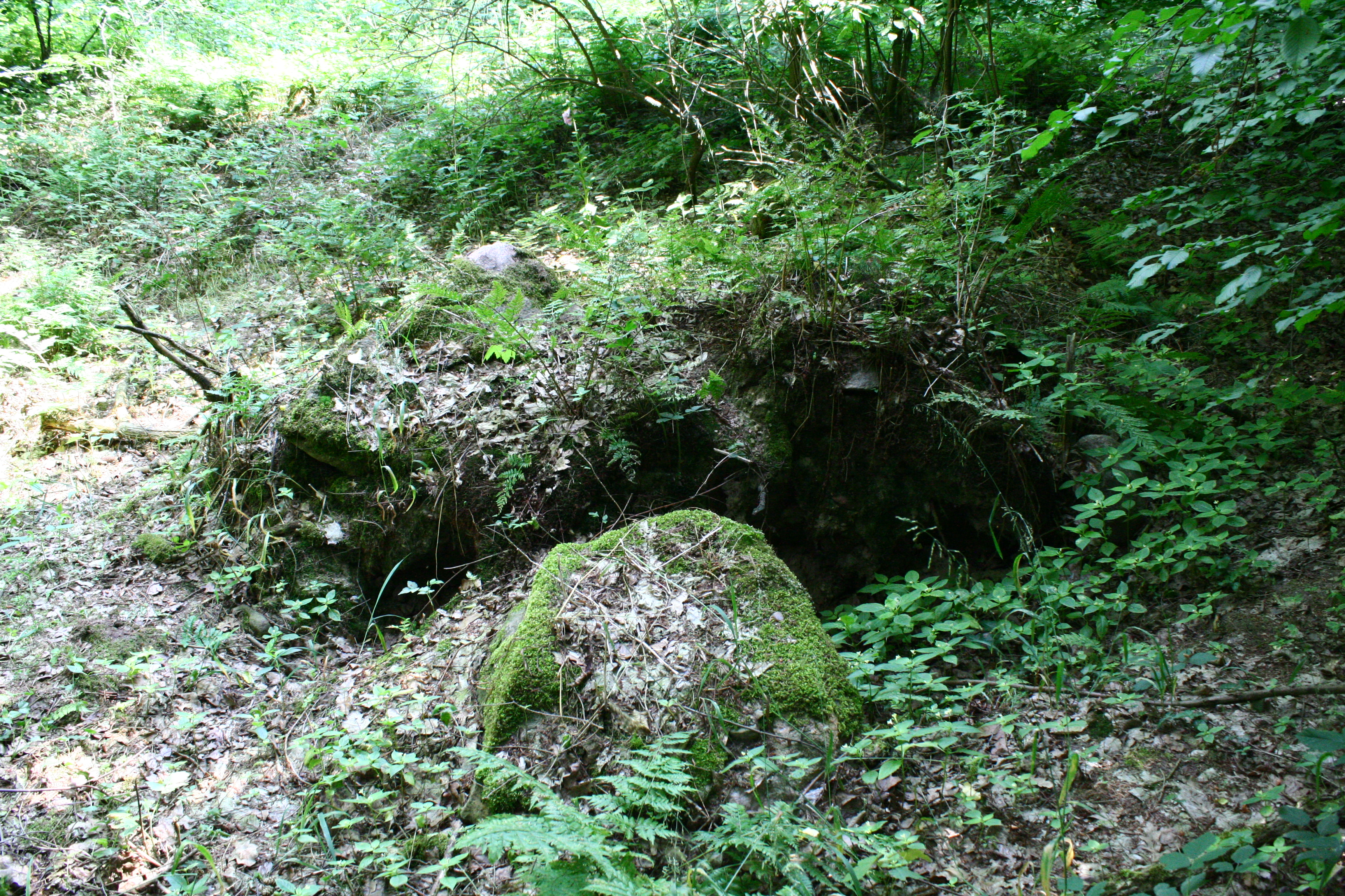 Megalithic tomb Haldensleben II 28